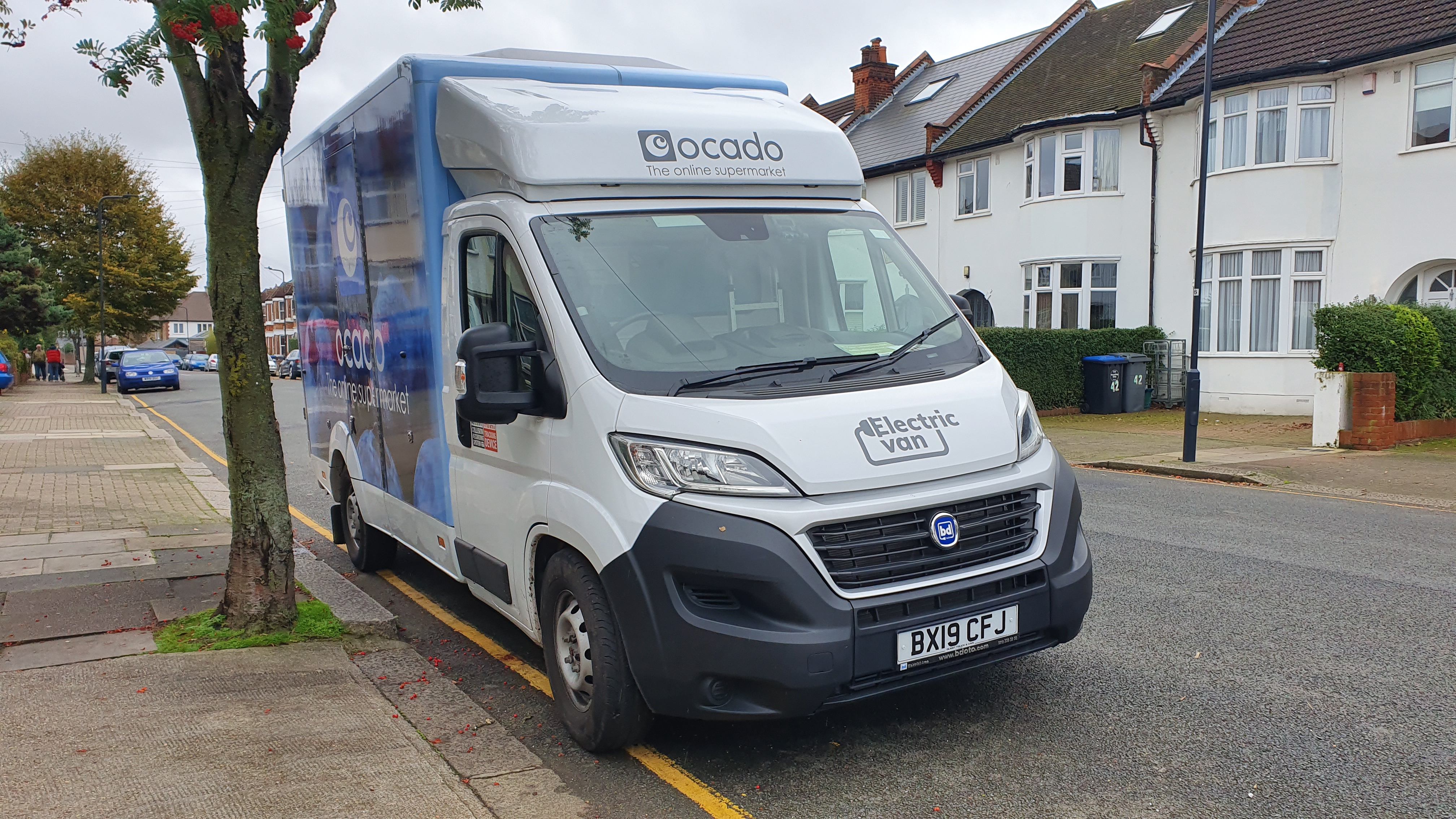 Electric Ocado Van parked in North West London